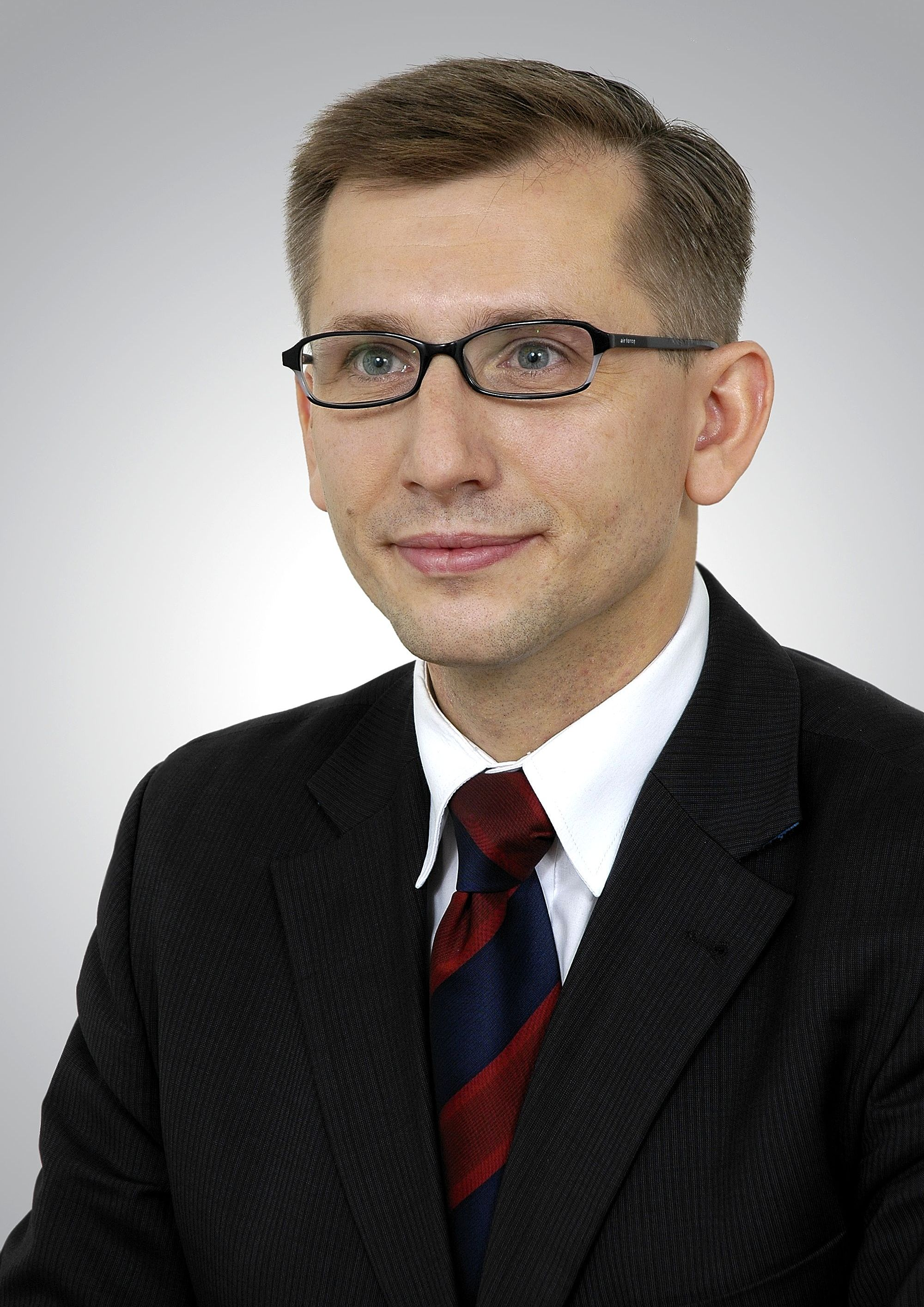 Senator Krzysztof Kwiatkowski